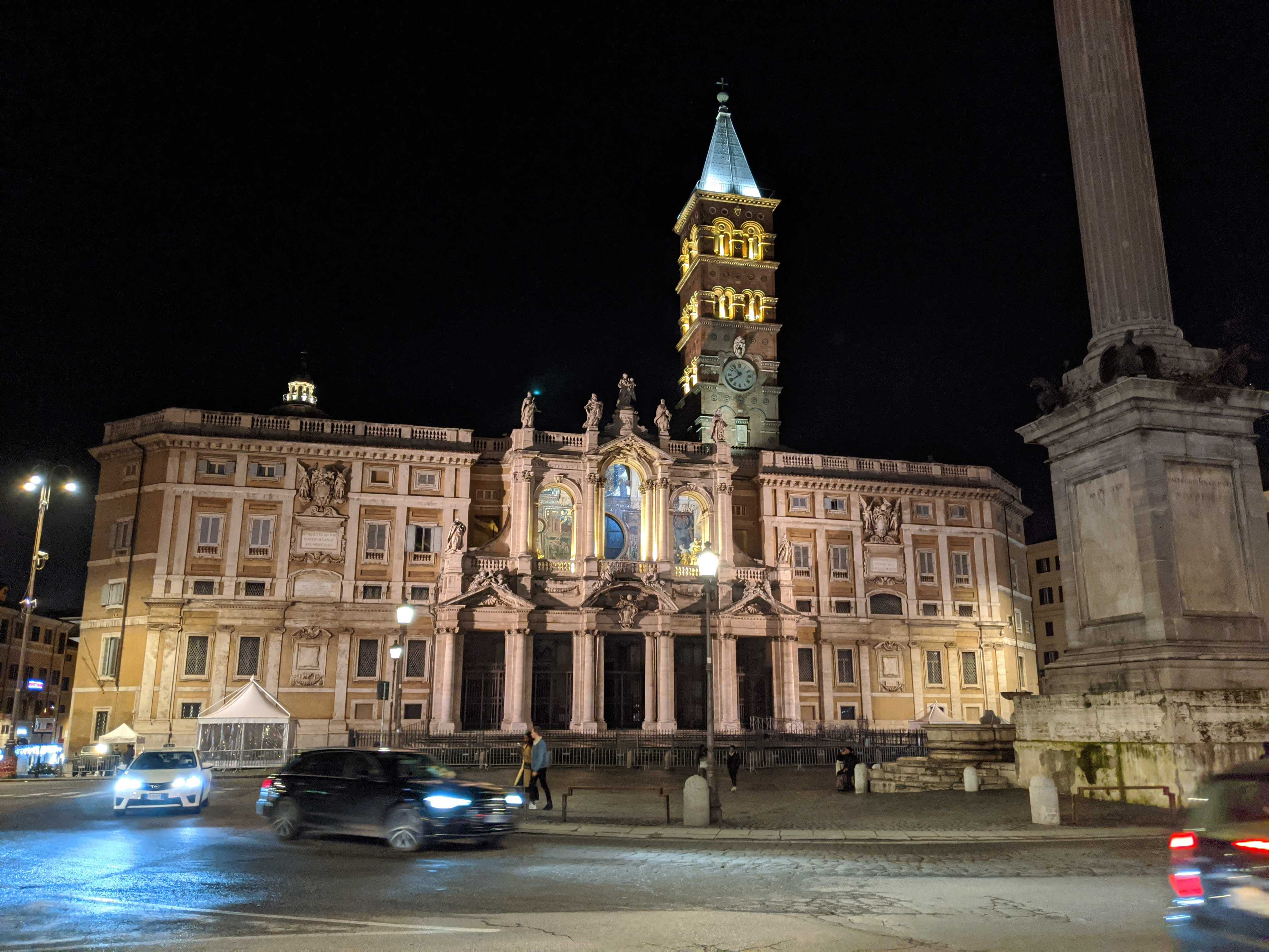 Basilica di Santa Maria Maggiore in Rome, Italy.